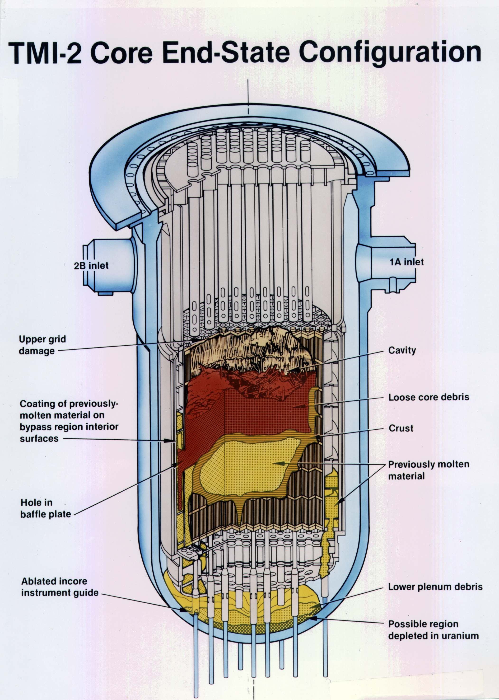 NRC Image of TMI-2 Core End Stable State.